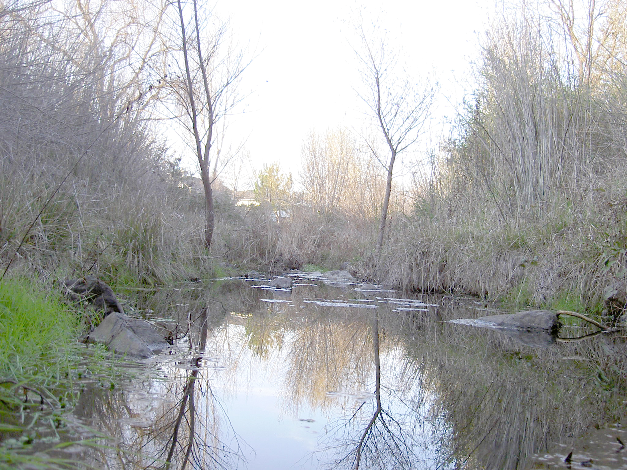 Windsor Creek — just west of Dizzy Gilespie Way in Windsor, Sonoma County, California.